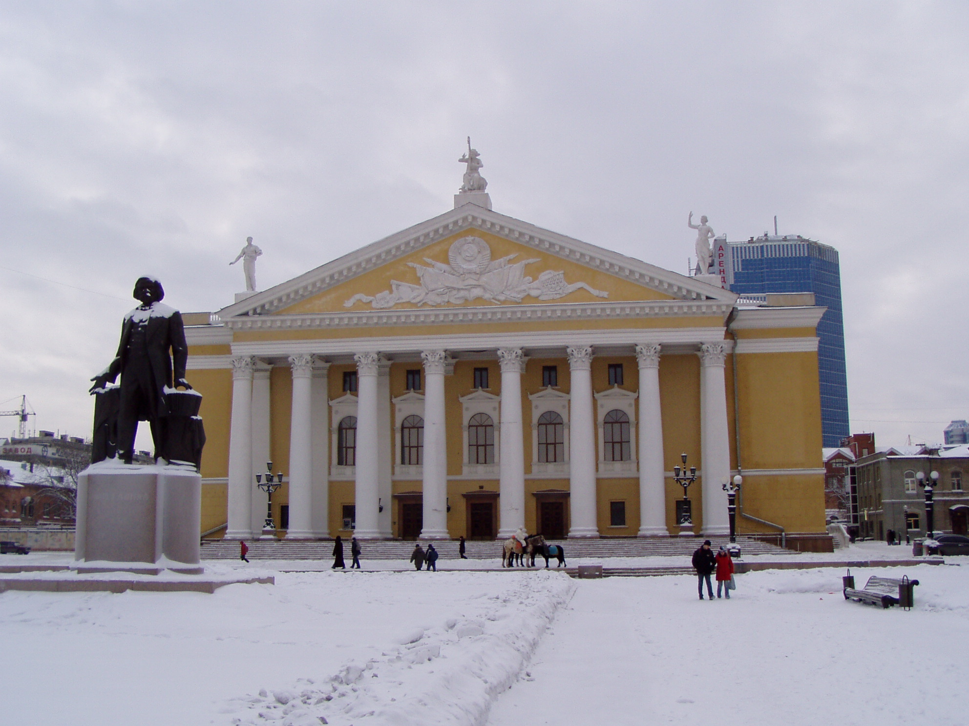 Opera House in Chelyabinsk (Ural, Russia)